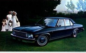 1975 Chevrolet Nova LN 4-Door Sedan